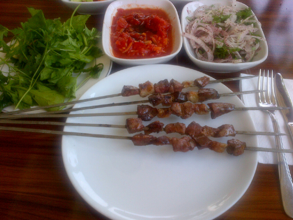 "Ciğer kebap", "ciğer kebabı" o "ciğer şiş" is an alternative to "ciğer tava" in the Turkish cuisine, if you wish to eat liver.